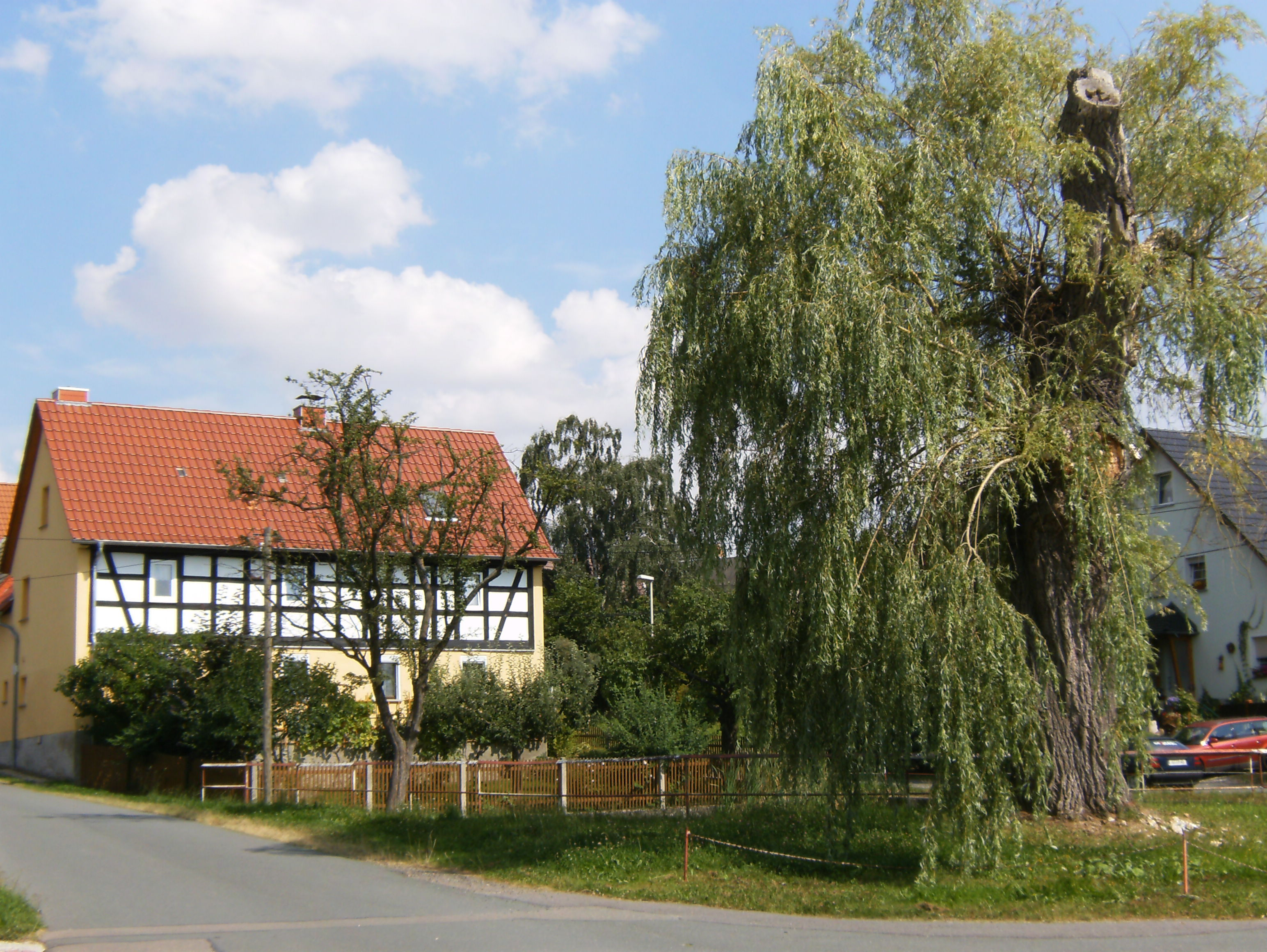 Gera Steinbrücken, village view with pond.